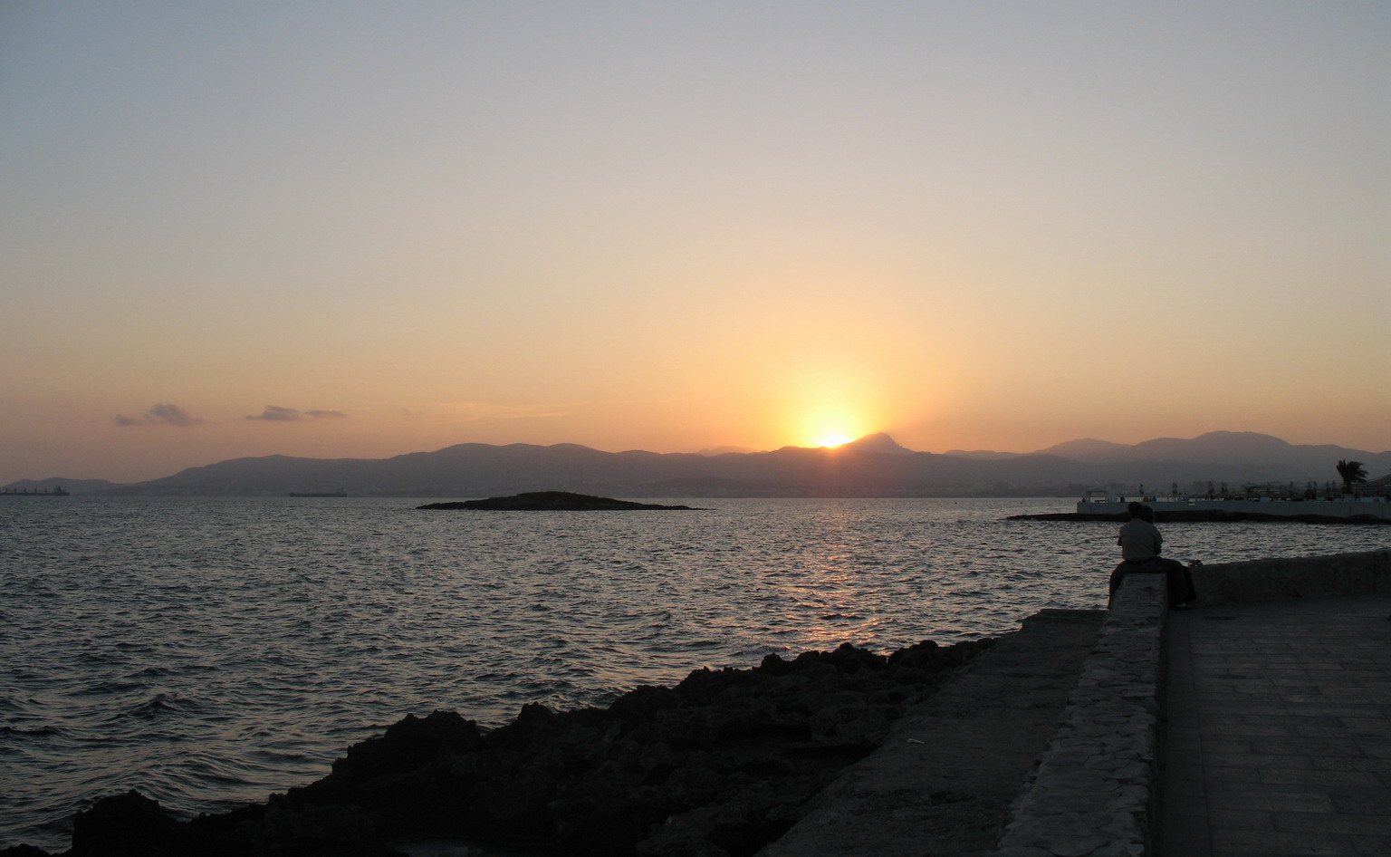 Sunset in Palma de Mallorca